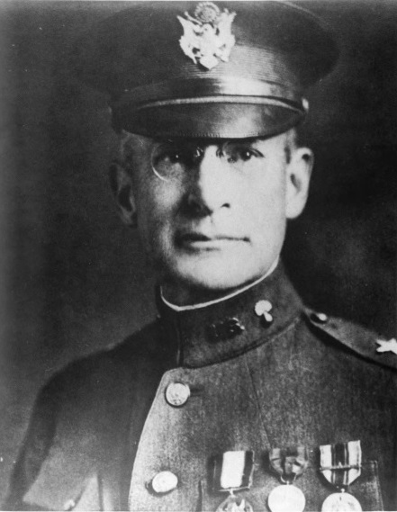 Colden Ruggles (US Army brigadier general)